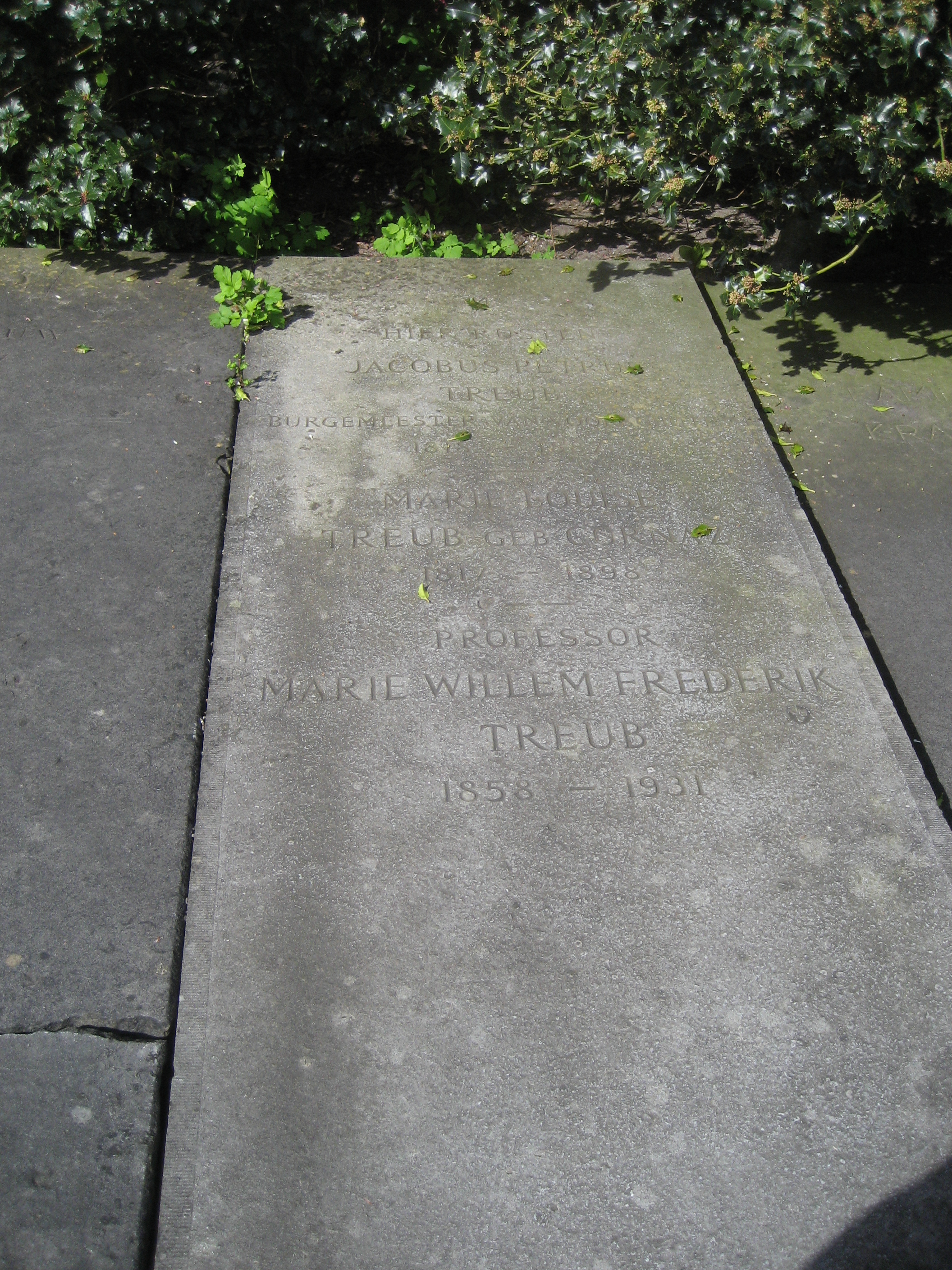 Tombstone Treub family, Voorschoten (the Netherlands)